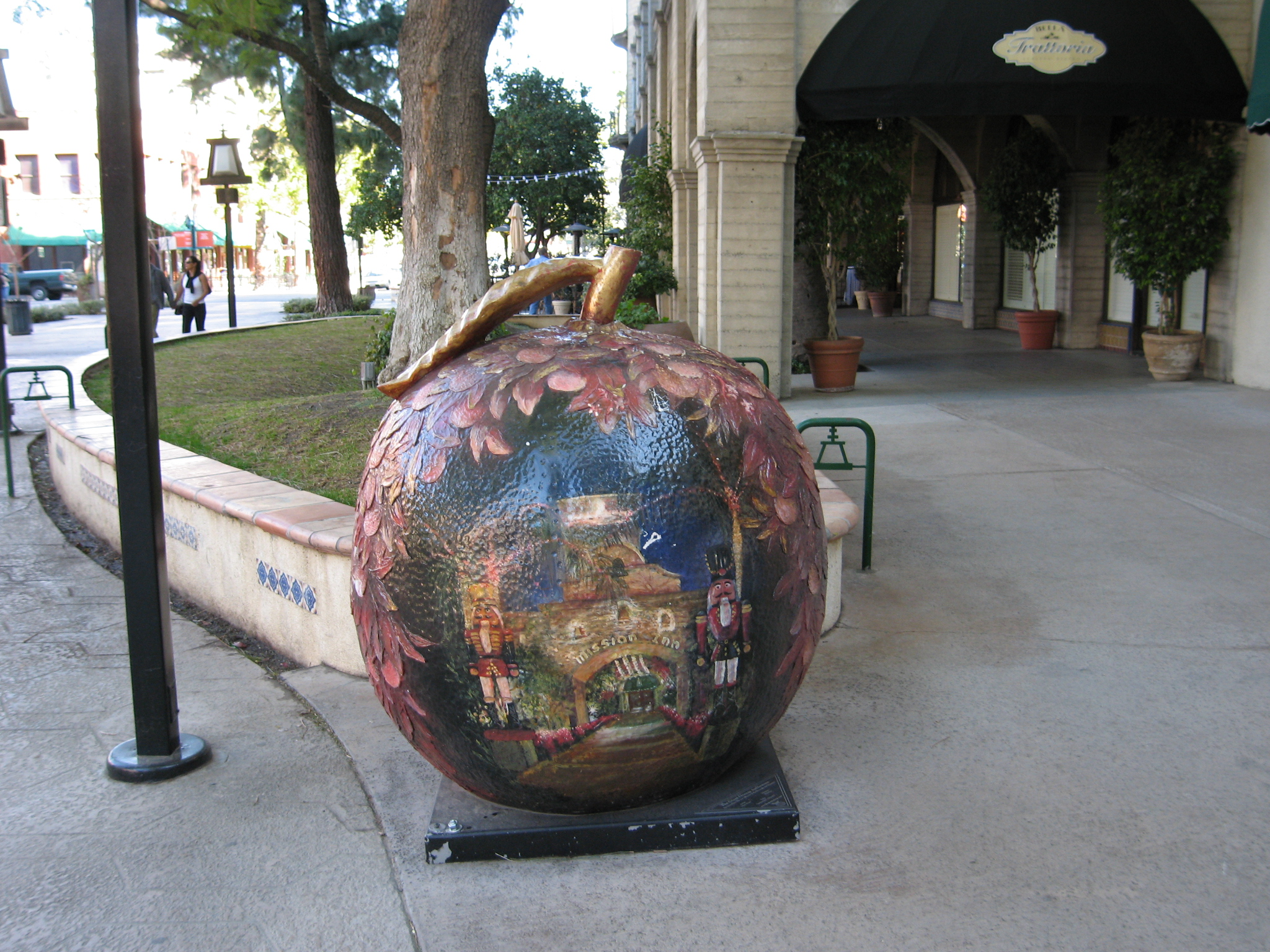 Painted "orange" in front of Mission Inn. These oranges are placed throughout the downtown area of Riverside, California, United States, each one painted differently.